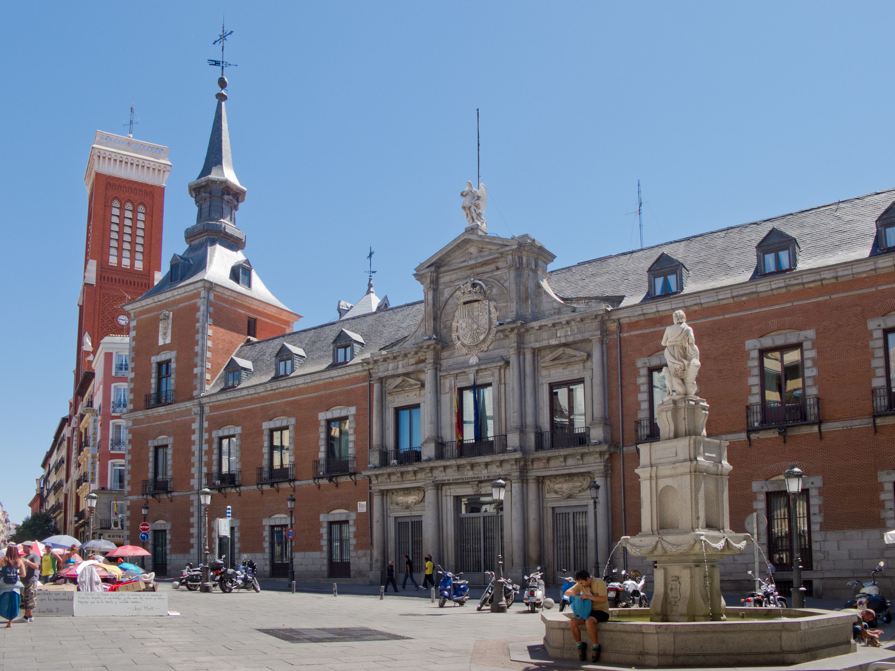 Santa Cruz Palace and fountain of Orpheus, Provincia Square, Madrid, Spain